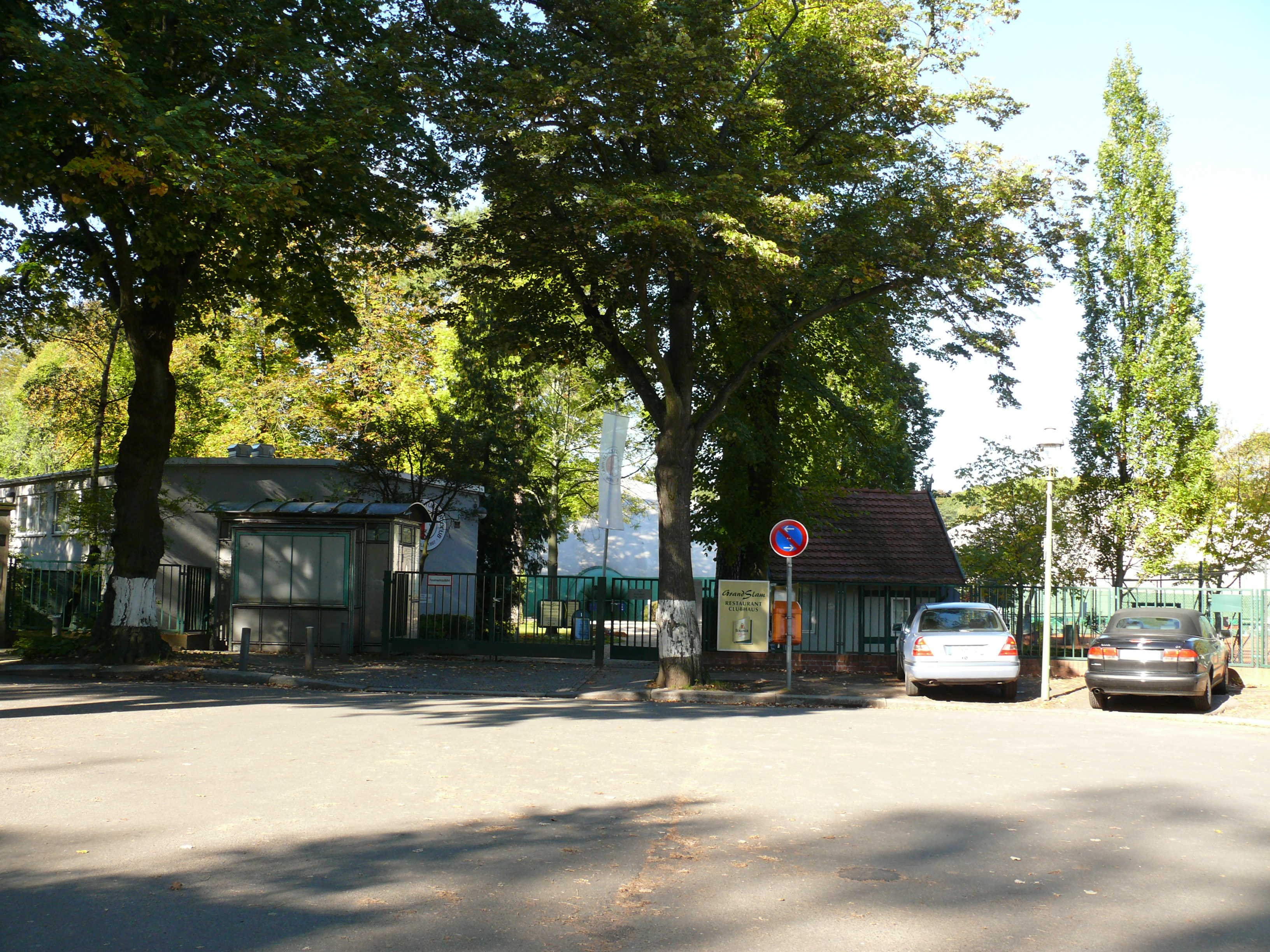 Berlin-Grunewald Gottfried-von-Cramm-Weg